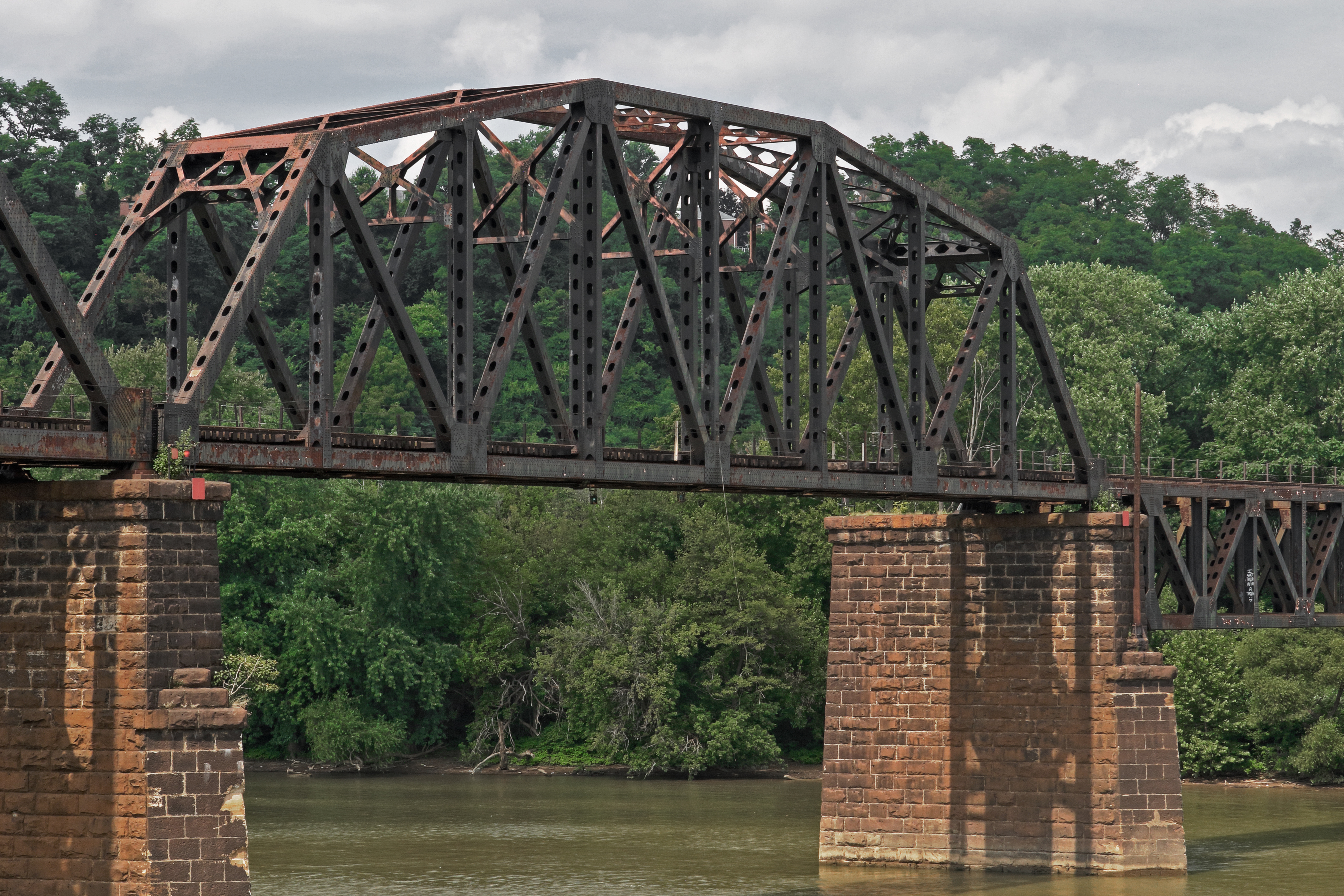 Photograph looking downriver, showing detail of the Pinkerton's Landing Bridge. Taken from the southern shore of the Monongahela River in Pennsylvania.